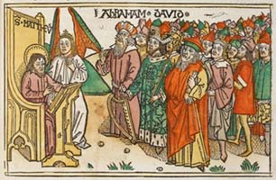 Matthew Evangelist. The text also says - Abraham and David